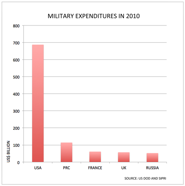 This graph was made using budget data published in 2010 by SIPRI and the US DoD.